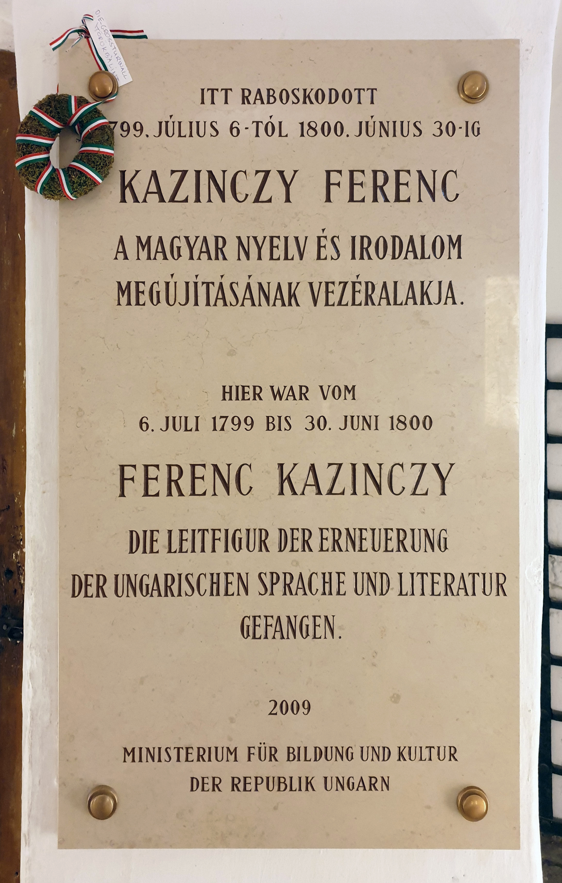 Memorial plaque, Ferenc Kazinczy, Festung 2, Kufstein, Österreich